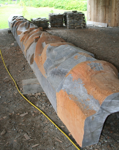 Incomplete Haida Totem Pole at the Haida Heritage Centre on the Queen Charlotte Islands, BC